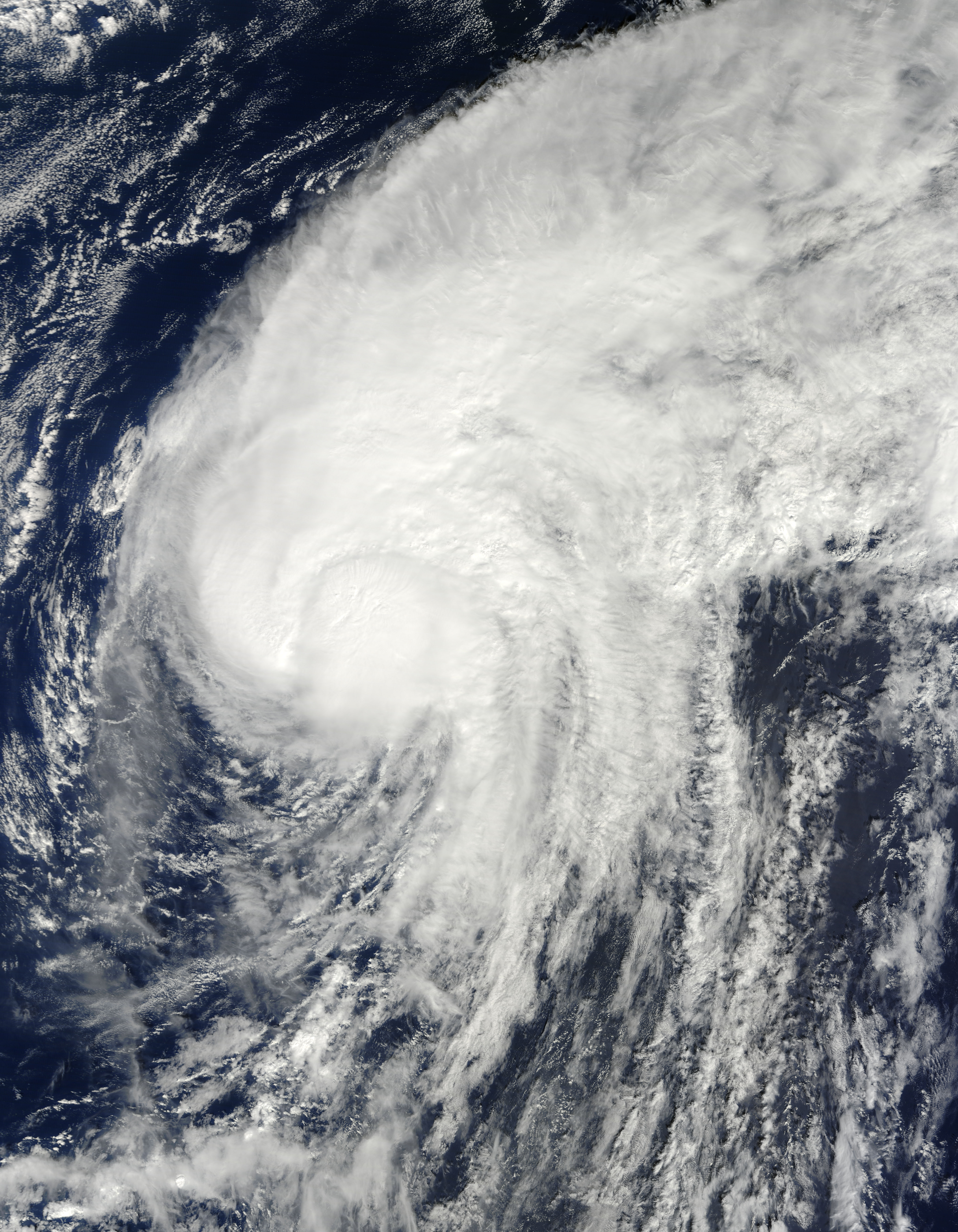 Hurricane Otto.